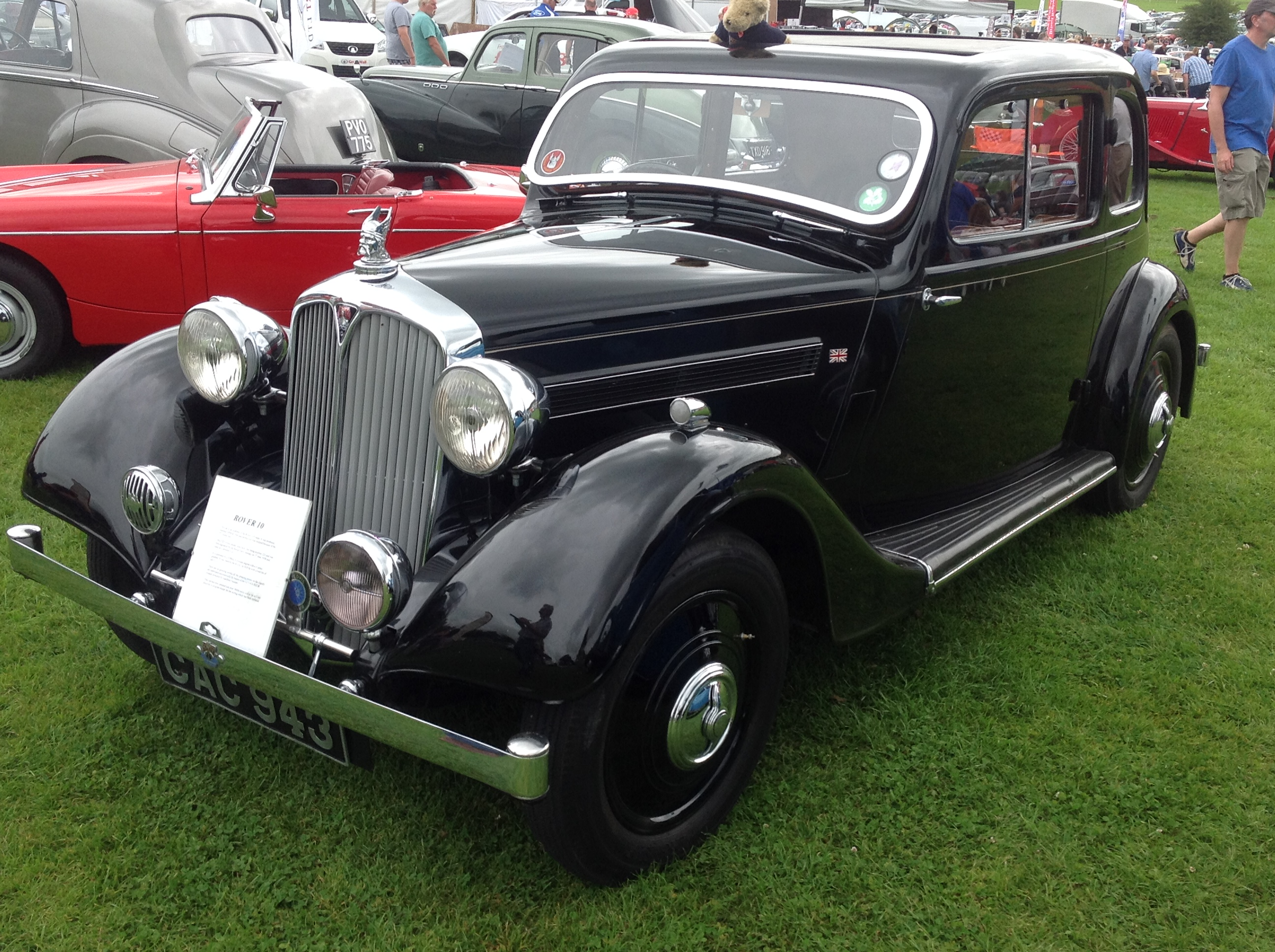 1939 Rover 10 sports coupé(DVLA) first reg 1 June 1938, 1389 cc Classics at the Castle, Sherborne, Dorset